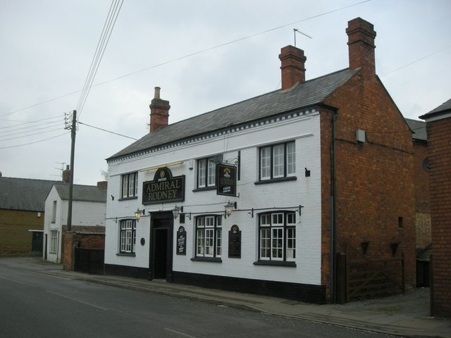 The Admiral Rodney public House, Long Buckby, Northamptonshire. This pub has now a private dwelling.